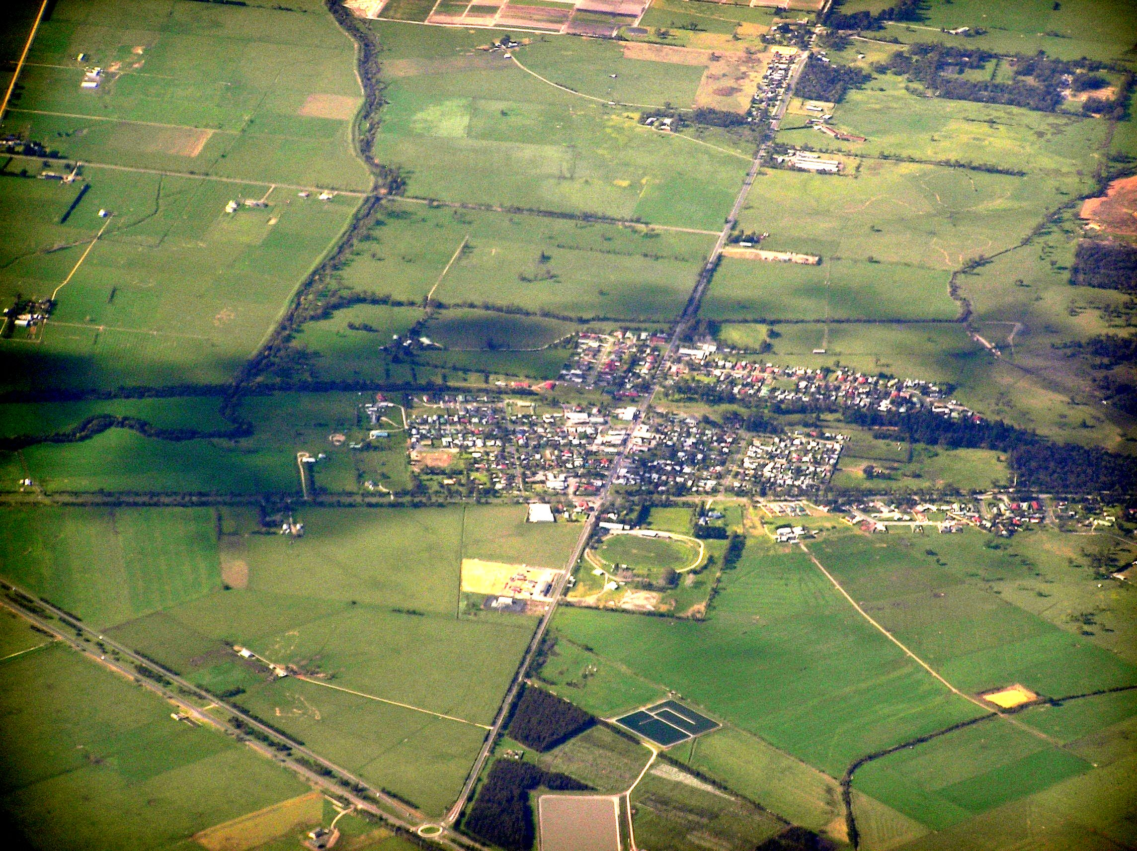 Aerial photo of Lang Lang Victoria Australia from south west